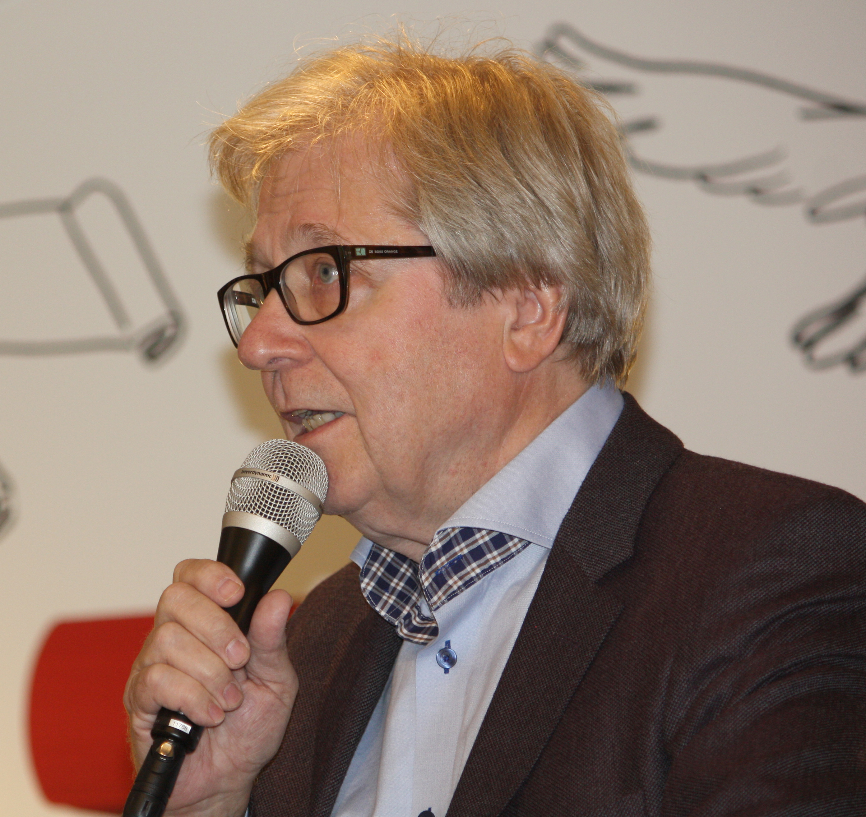 Finnish journalist Markku Veijalainen on the Night of The Arts in Helsinki 2013